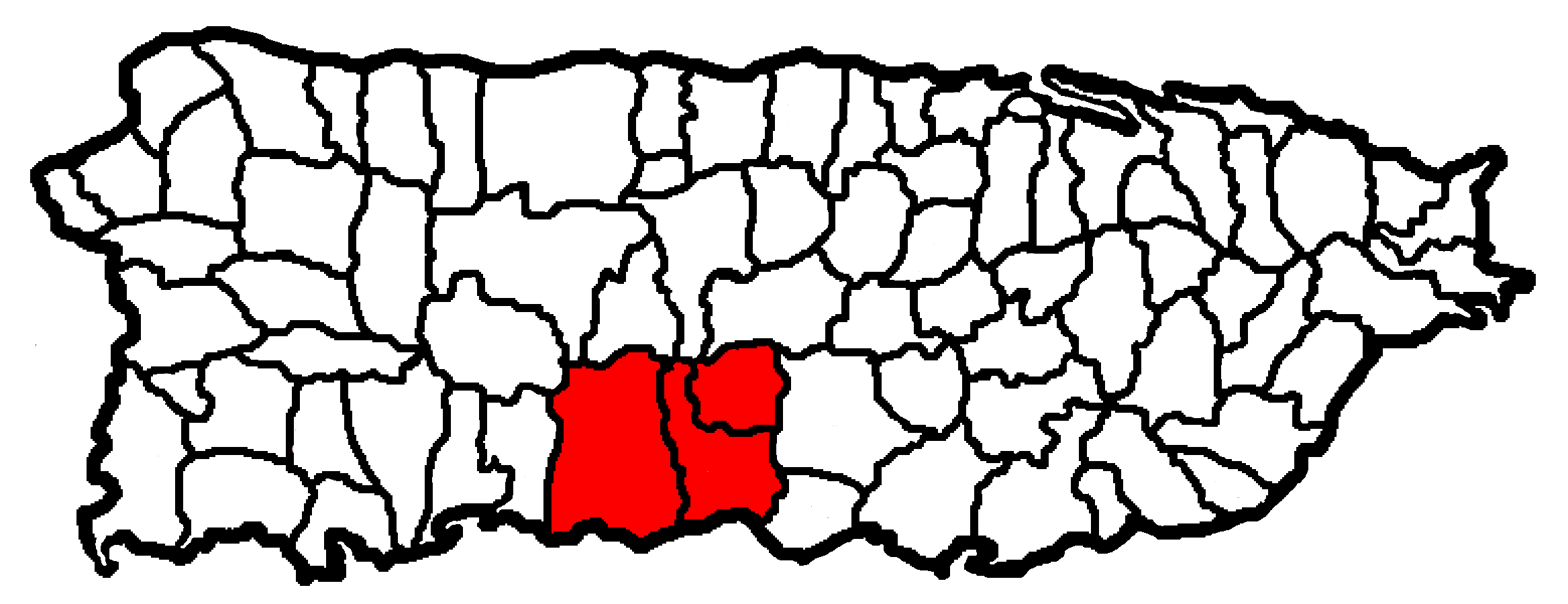 Map of Puerto Rico highlighting the Ponce Metropolitan Statistical Area. Created with the GIMP.